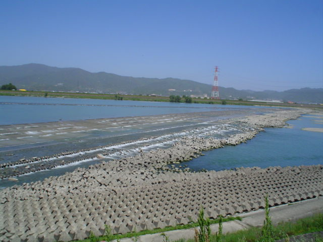 Daiju-zeki Weir (吉野川第十堰) from south side of Yoshinogawa River, Tokushima, Japan.